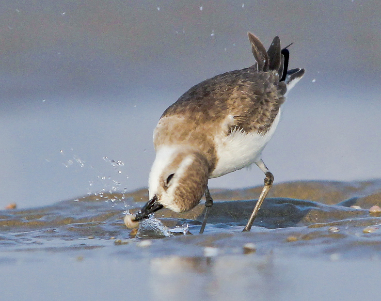 Feeding